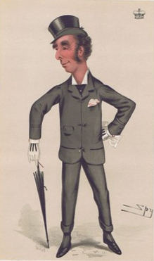 Caricature of The Marquis of Queensberry. Caption read "a good light weight".